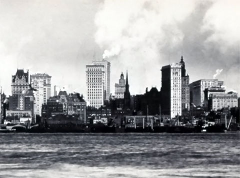 Fragment of the New York City skyline, c1902, centered on the Gillender Building (behind Trinity Church spire)